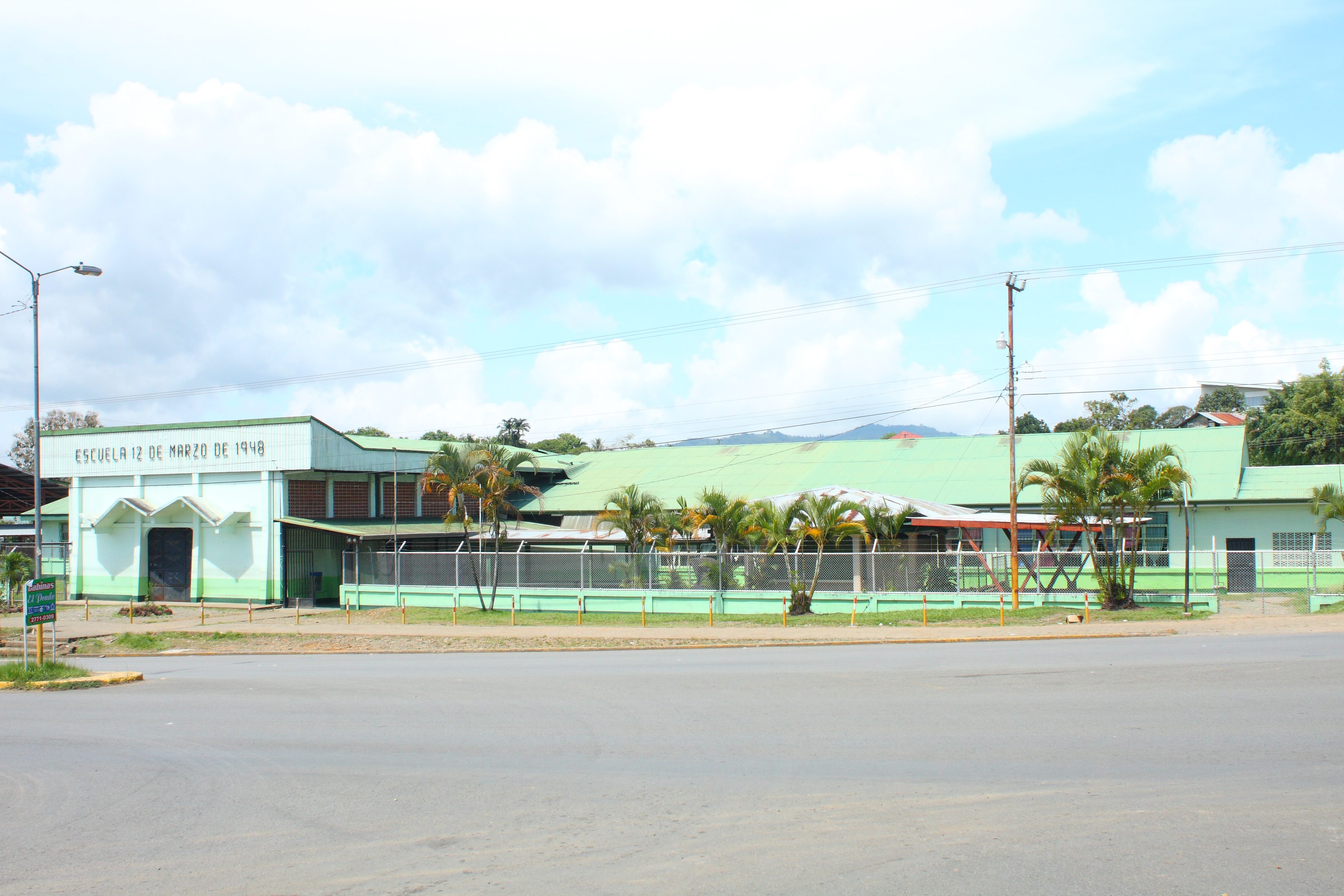 12 de Marzo School in Pérez Zeledón Canton, San José, Costa Rica